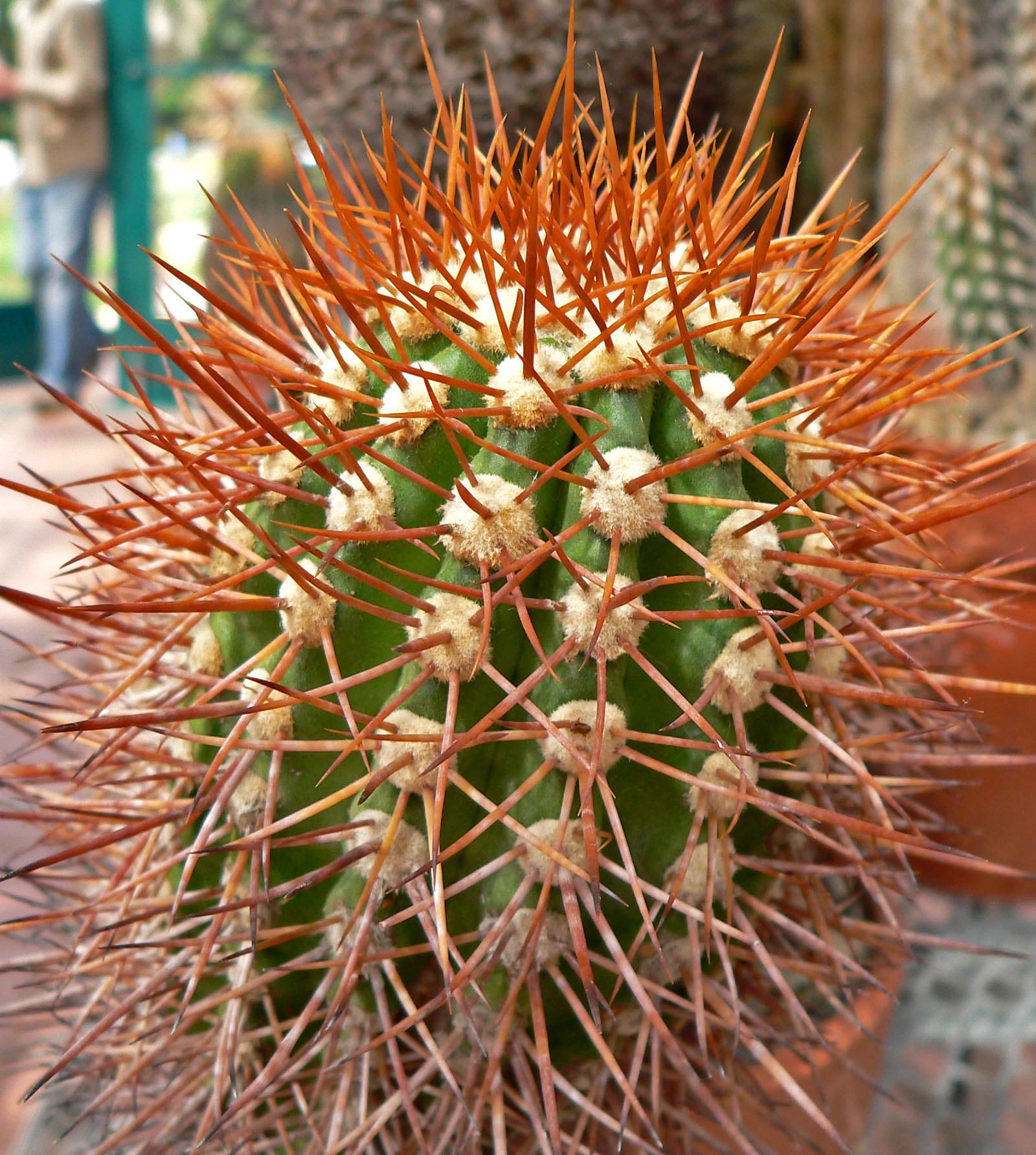 Copiapoa humilis at the University of California Botanical Garden, Berkeley, California